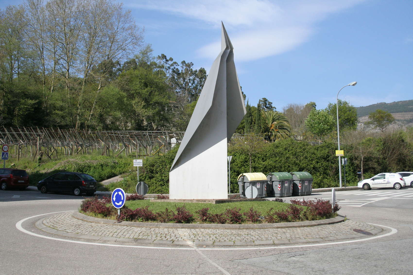 "Paper plane" by Xavier Ríos